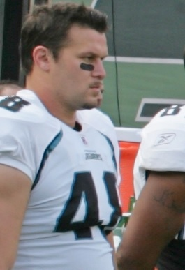 Jeremy Cain, long snapper for the Jacksonville Jaguars, in 2009